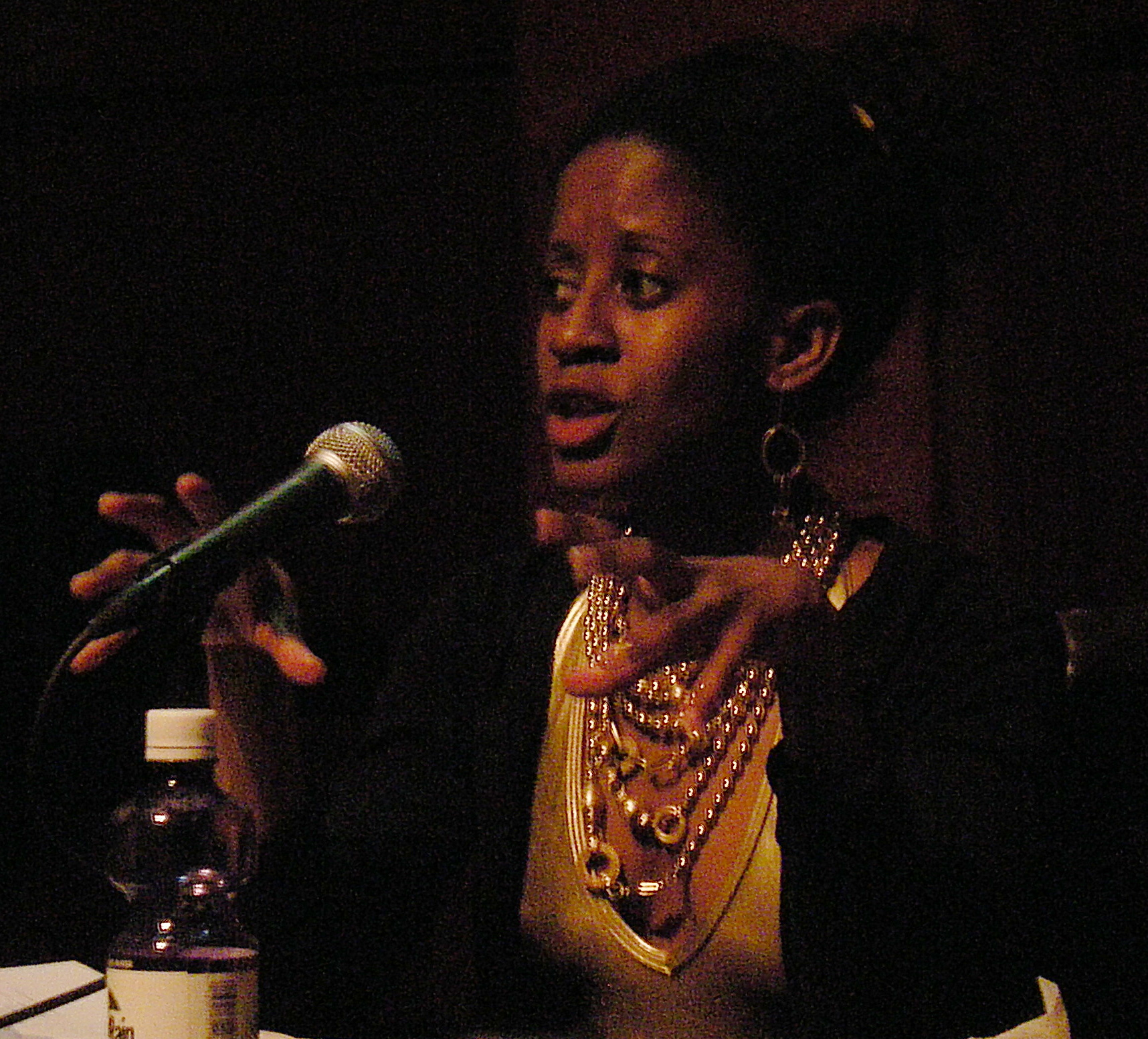 Journalist and performance artist Holly Bass on the Rap Memes panel at the 2009 Pop Conference, Experience Music Project, Seattle, Washington.